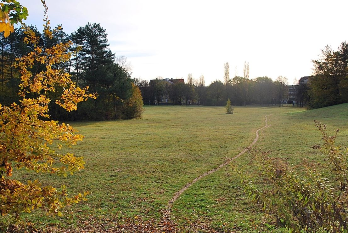 Freimanner Heide